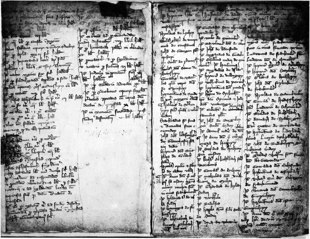 Frankfurt on the Main: Buergerbuch I (Citzen Book I) with citizen admissions of 1311 and 1312, gothic minuscule on paper; the book, whose first pages are yet property of the imperial mayor, is the oldest testimony for the activity of the local government